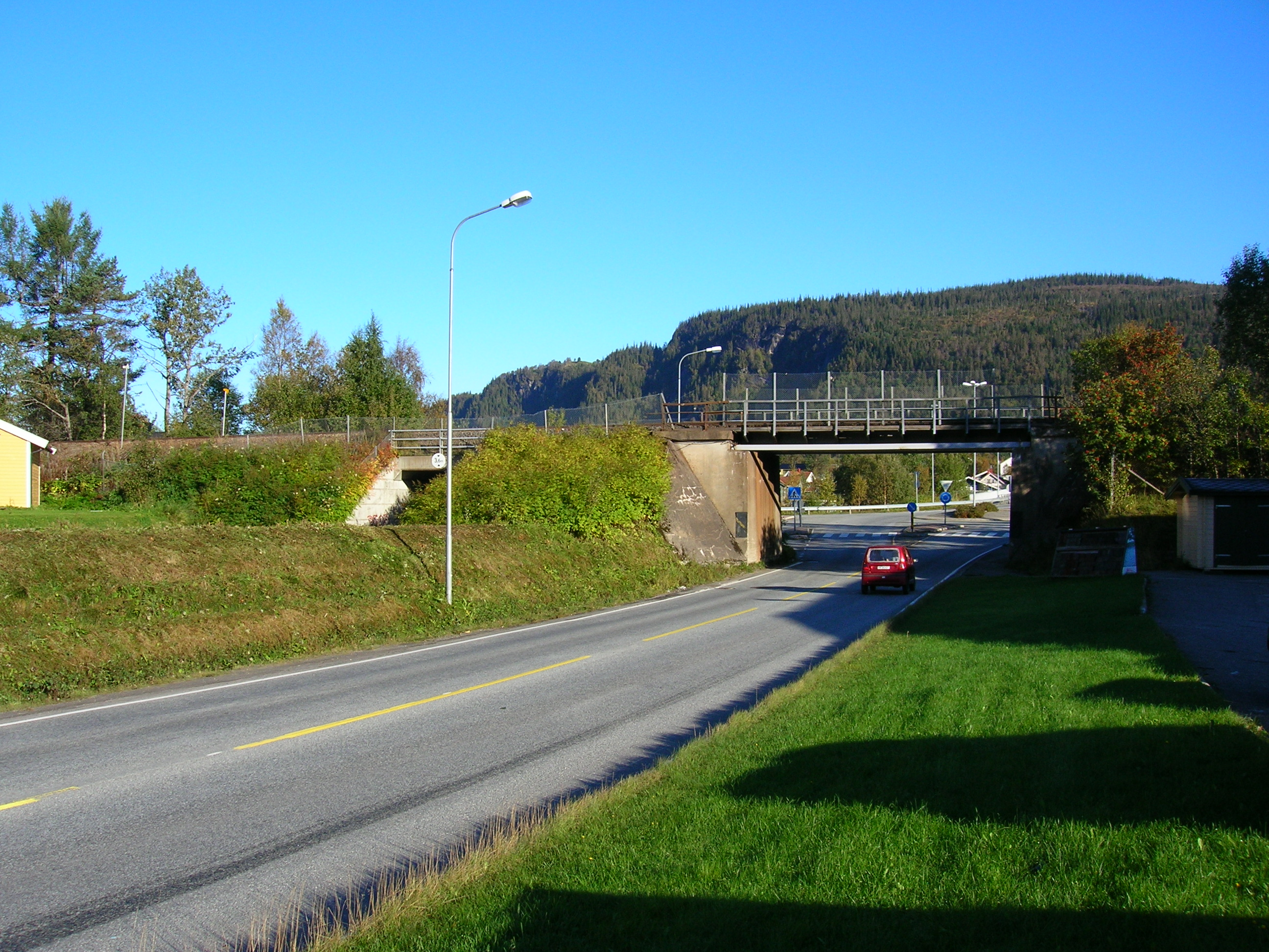 Nordlandsbanen (the Nordland railway line) passing over European route 6 at Tverrånes. Rana municipality, county of Nordland, Norway, Photo 25 September, 2006 with a Nikon Coolpix 5600 5,1 Megapixel camera.